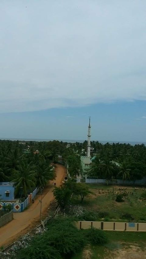 Birdview